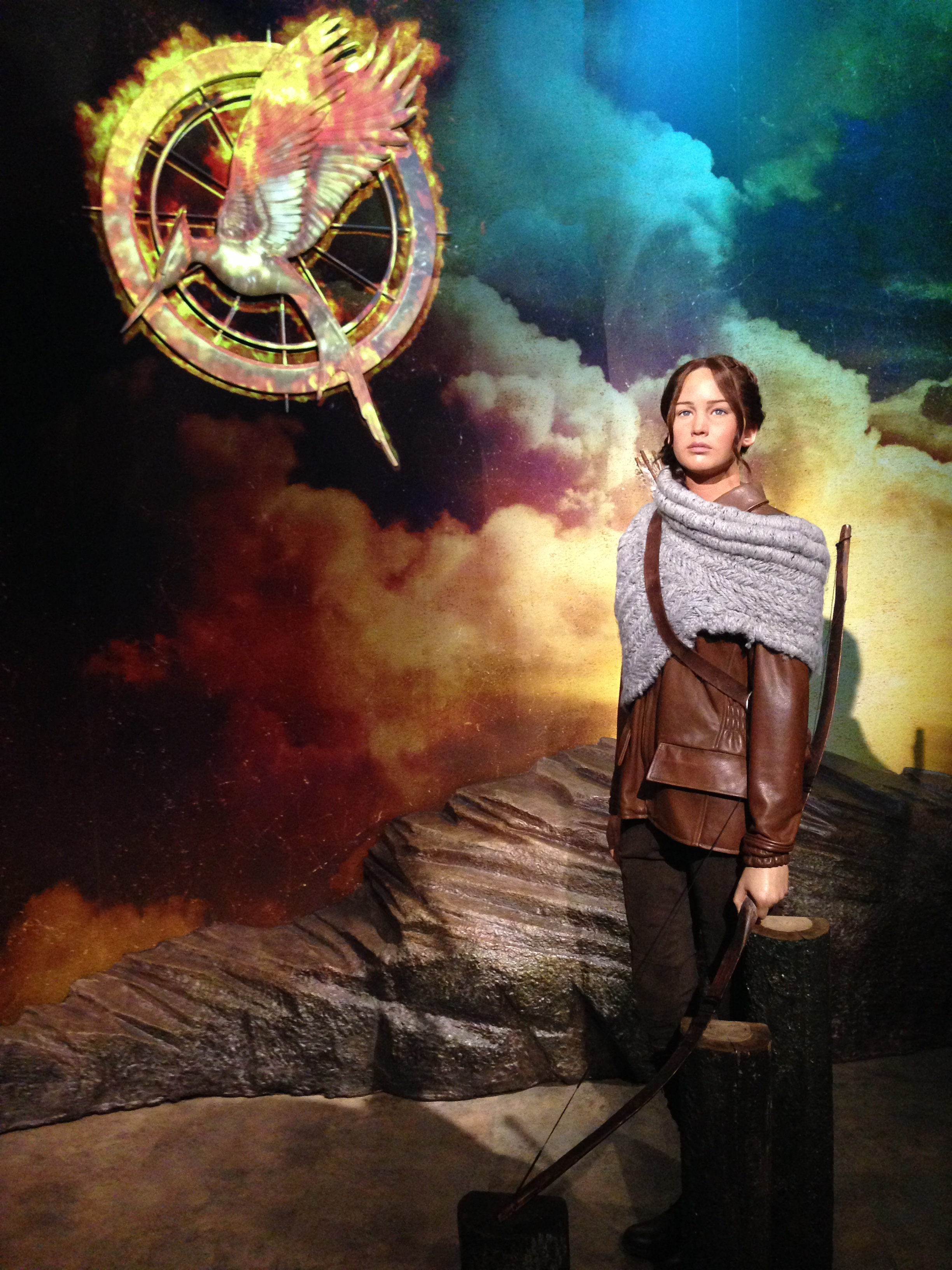 Katniss Everdeen (Jennifer Lawrence) at Madame Tussauds London - November 1st, 2016